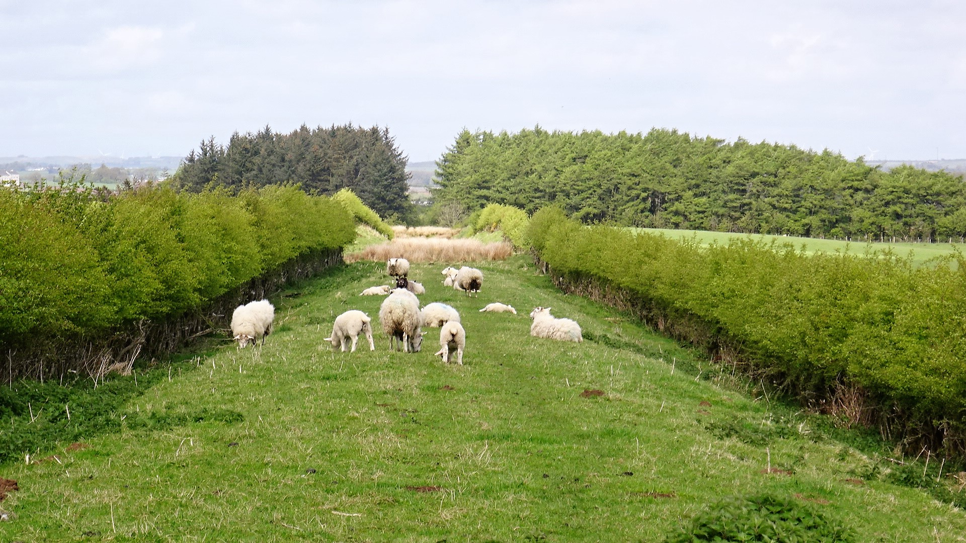 Templeton railway trackbed, view from the south, East Ayrshire. Old G&SWR Fairlie Branch.